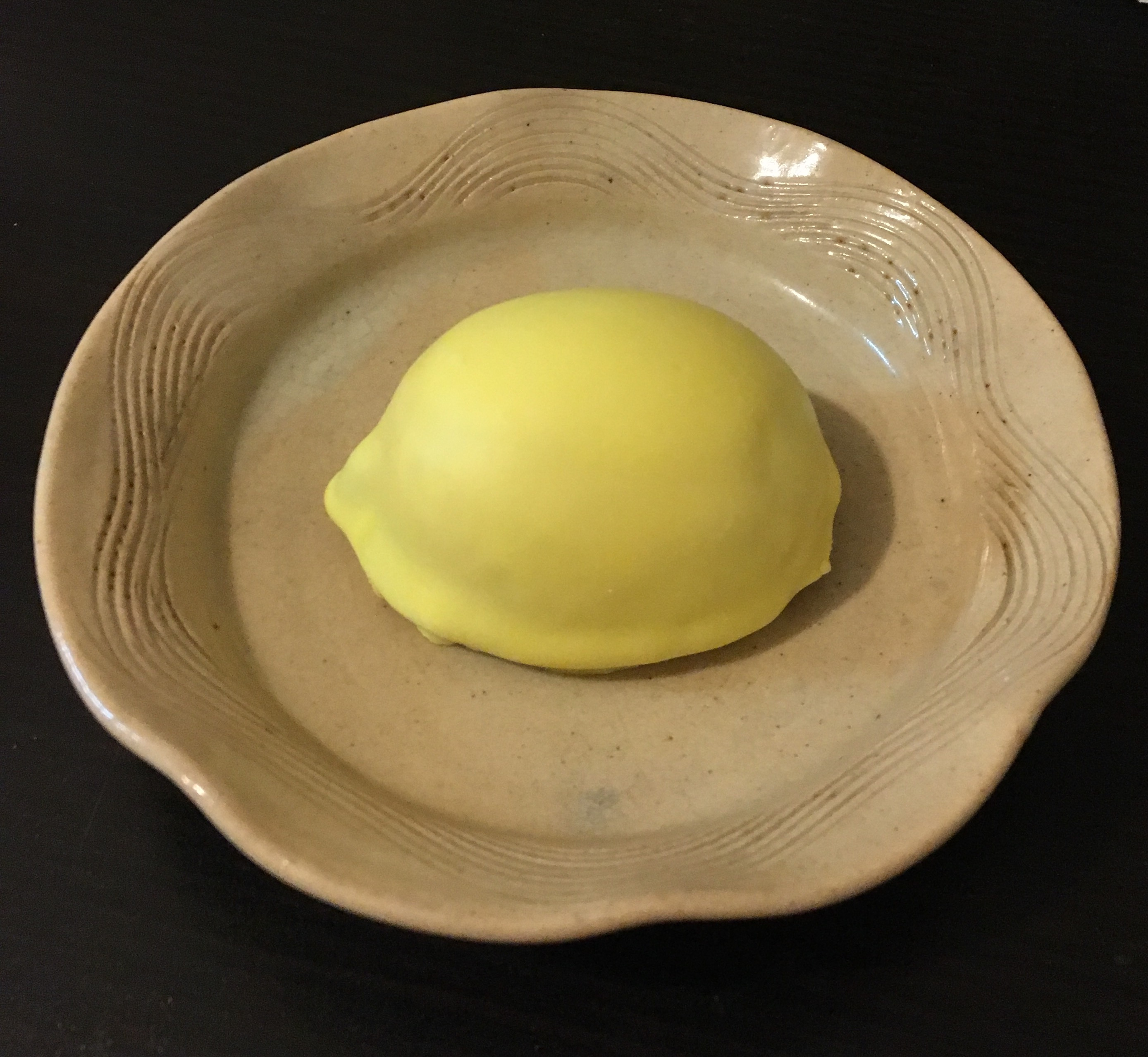 A lemon cake made by a confectionery company in Hirosaki, Aomori Prefecture, Japan